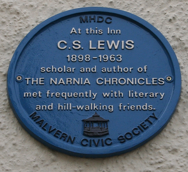 C.S. Lewis Plaque on the Unicorn Inn C.S. Lewis author of the famous Narnia series of children's books came to school in Malvern. He later returned for hill-walking holidays. The walks frequently ended at the Unicorn Inn.